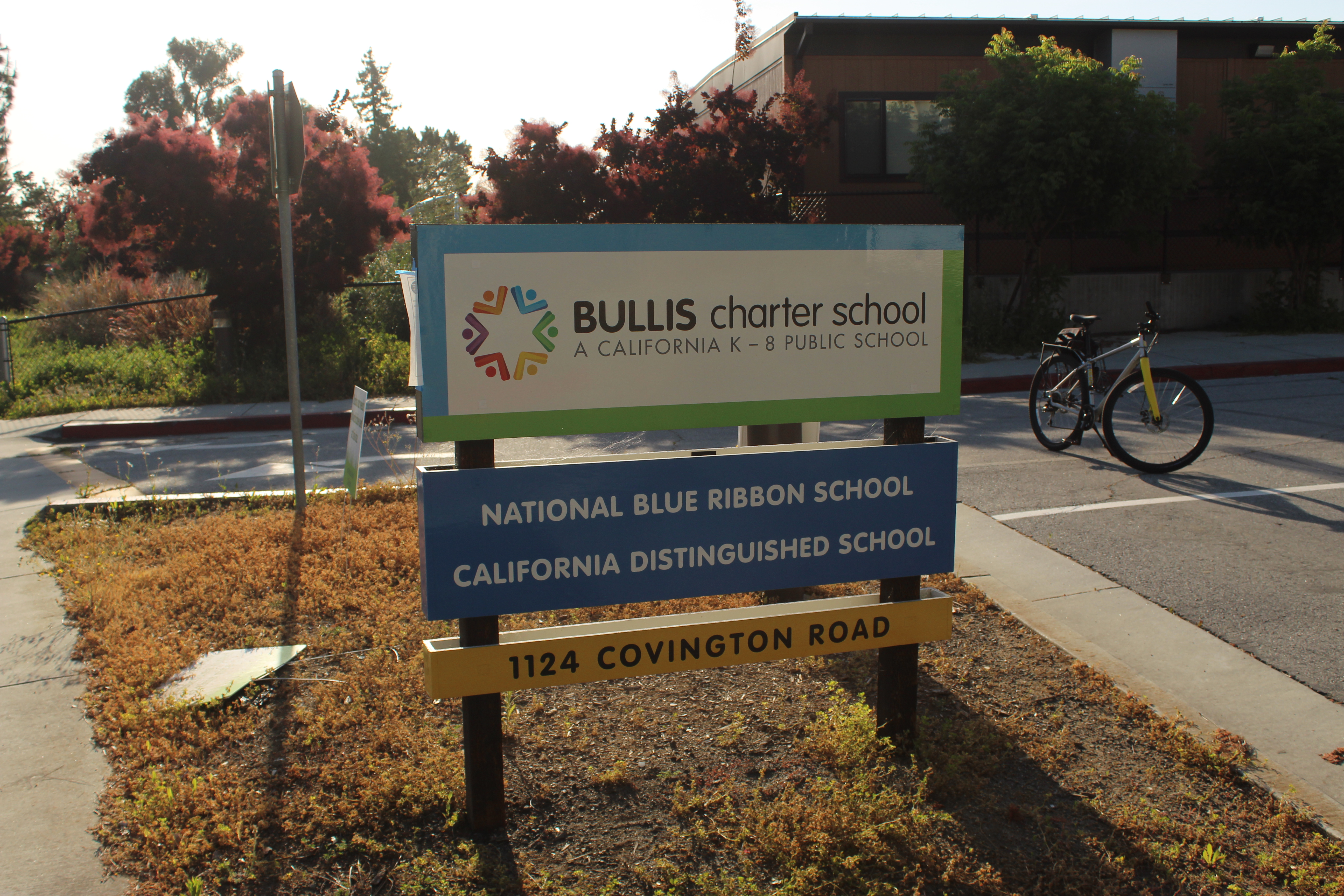 Bullis charter school in May 2020. I accidentally left my bike in the background